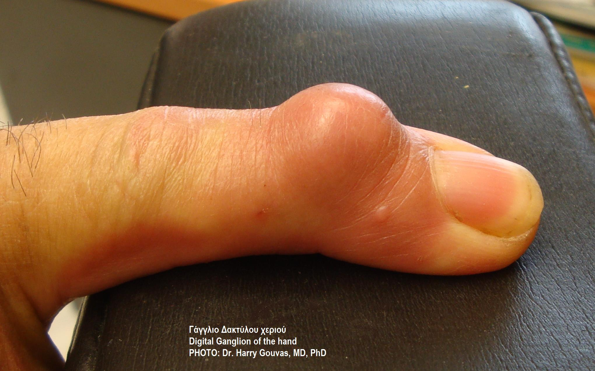 Digital gaglion of the hand